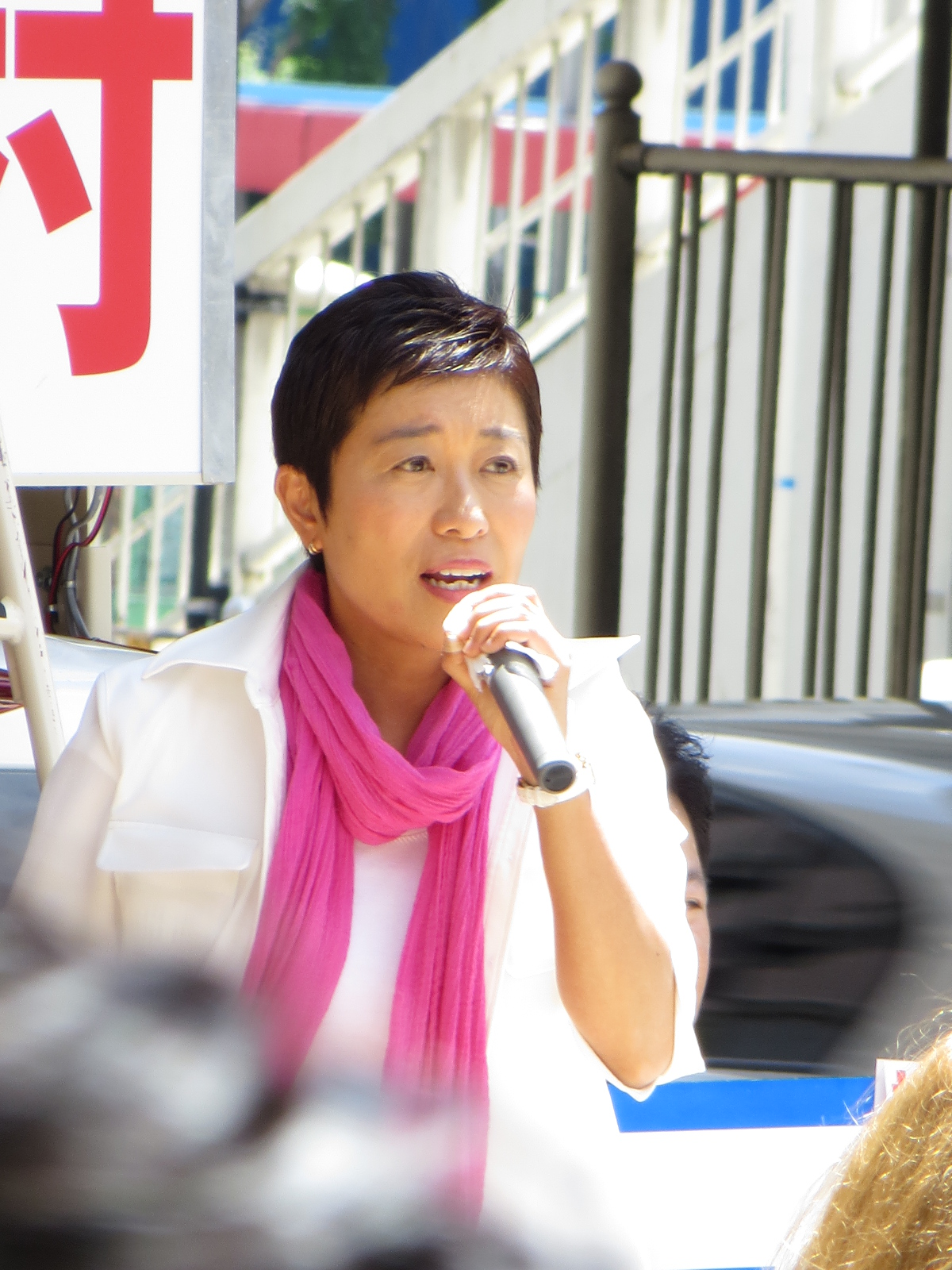 Kiyomi Tsujimoto (Democratic Party of Japan politician. Member of the House of Representatives of Japan).